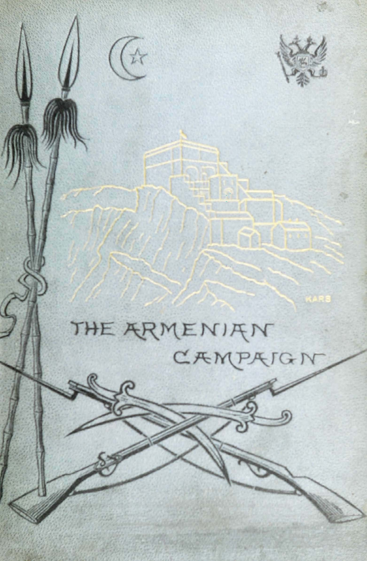 Self produced scanned book cover of The Armenian Campaign by Charles Williams.